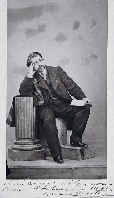 The signed photograph of Spanish composer Mariano Soriano Fuertes (1817-1888) dedicated to the Spanish writer Pedro Antonio de Alarcón (1833-1891)